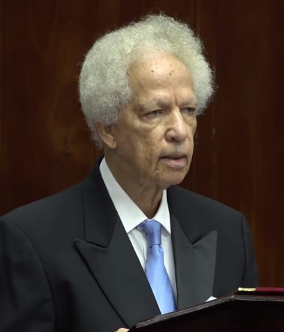 Her Majesty The Queen is pleased to approve the appointment of Mr. Emmanuel Neville Cenac as the new Governor General of Saint Lucia, effective 1st January 2018. The new Governor General takes the Oath of Office at an Installation Ceremony on Friday January 12th 2018 in a ceremony that starts at 10:00am.